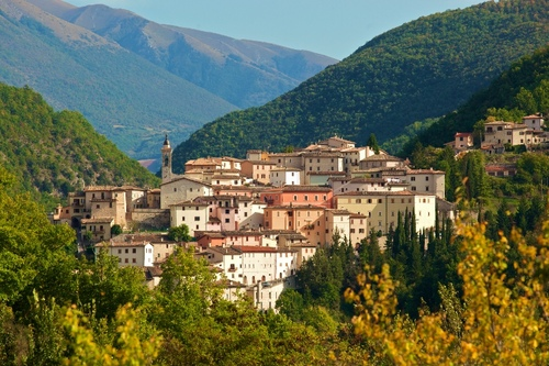 wiev of Preci